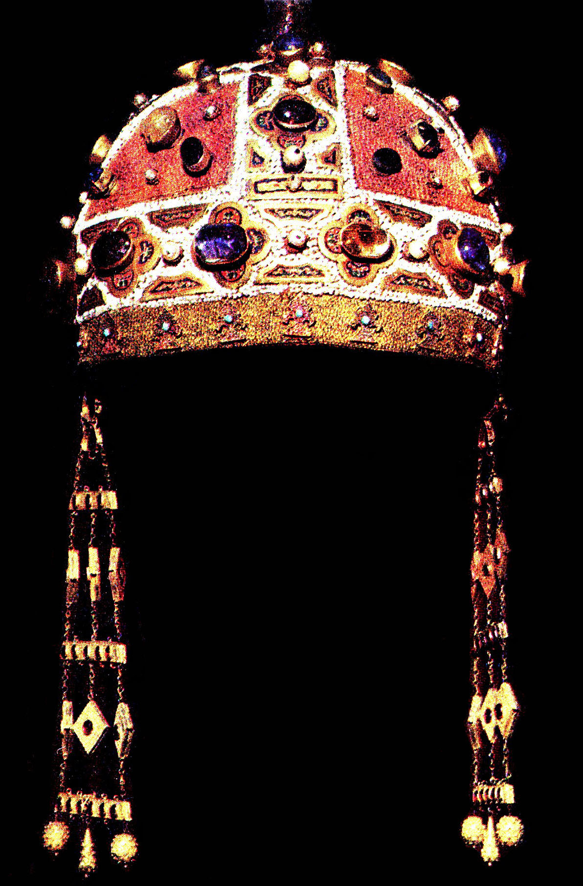 Kamelaukion. The crown was found in the tomb of Constance of Aragon, the wife of emperor Frederick II, Holy Roman Emperor.